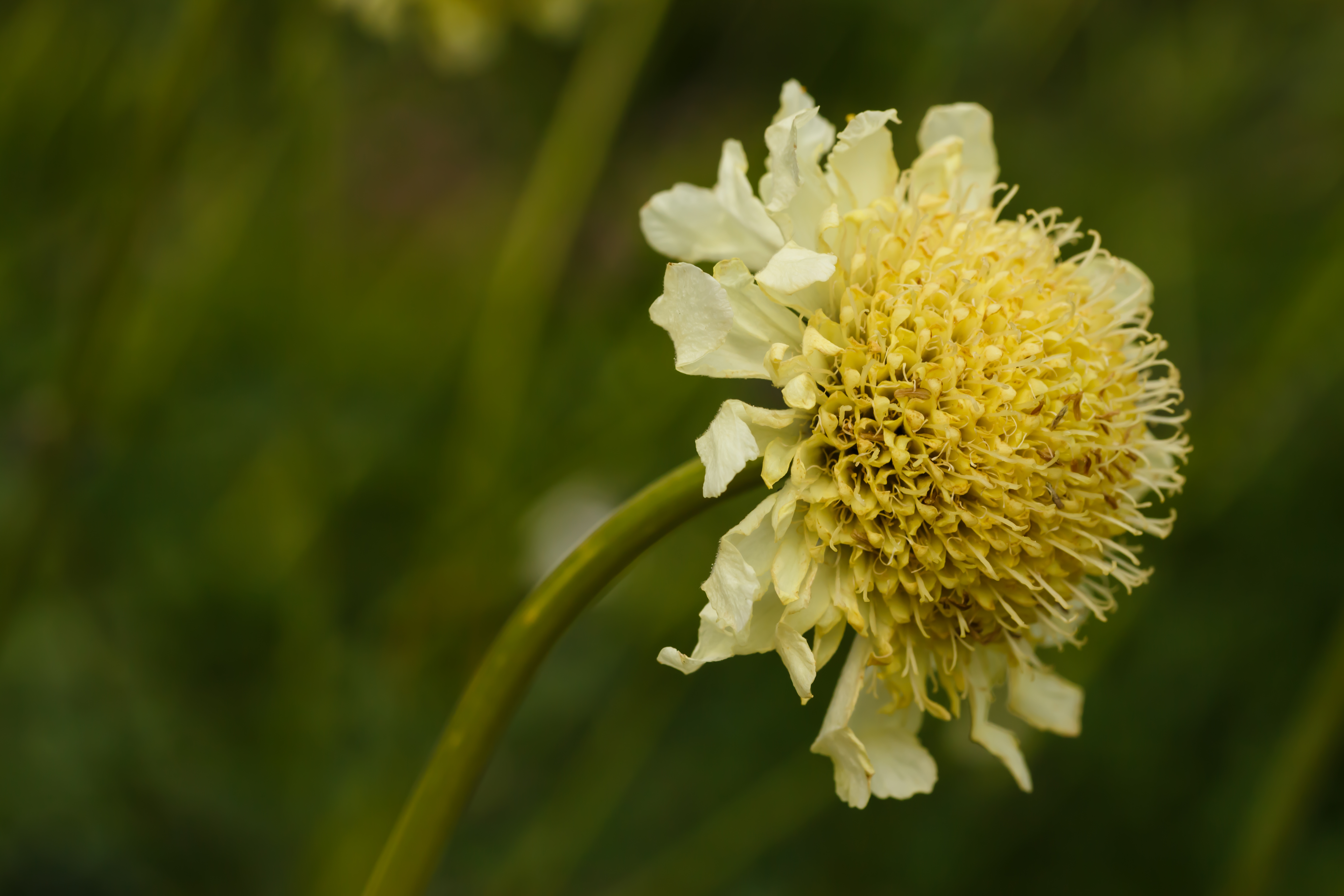 Cephalaria dipsacoides. Location, The Kruidhof in the Netherlands.